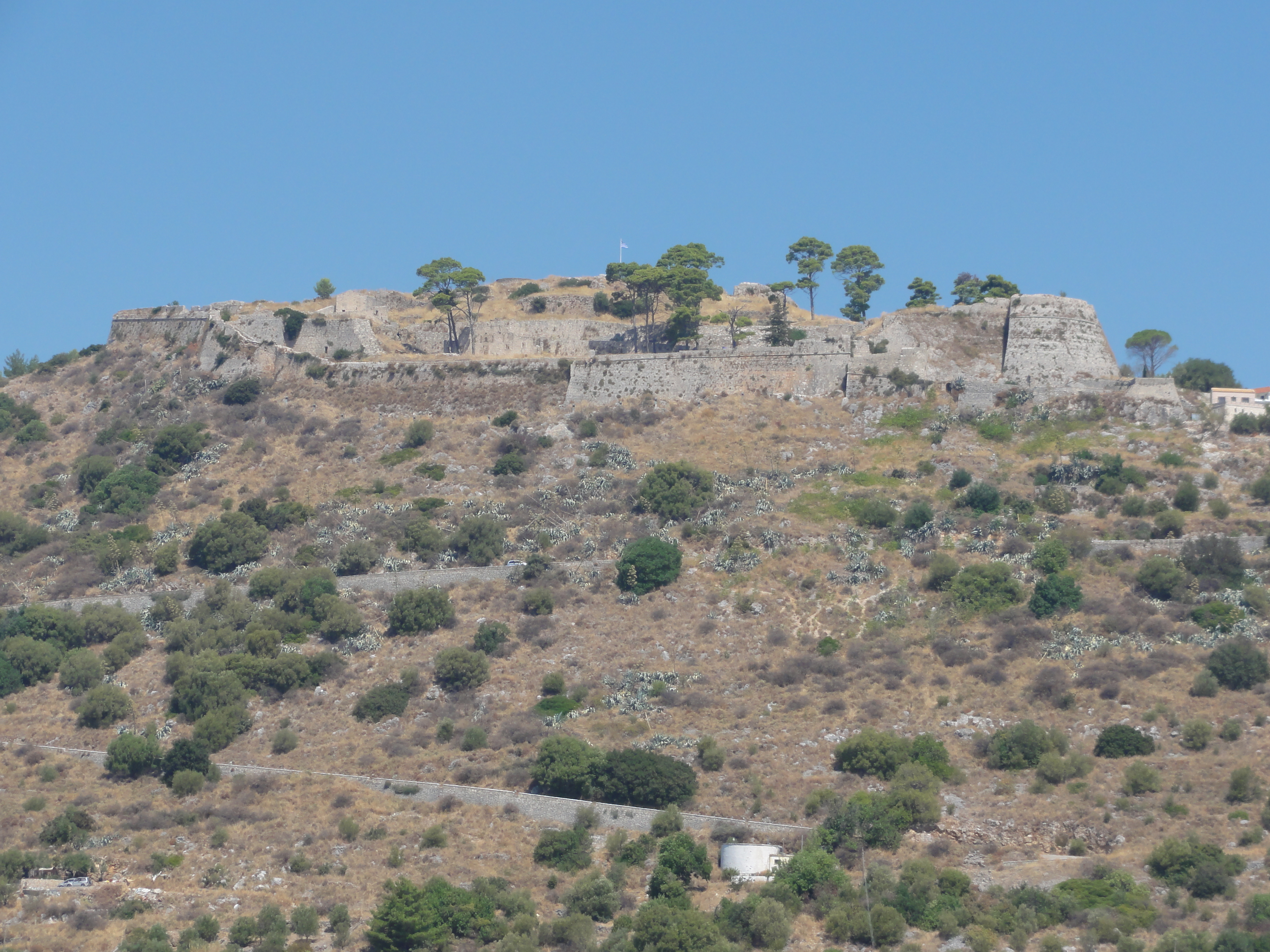 Photograph taken in Kefalonia.